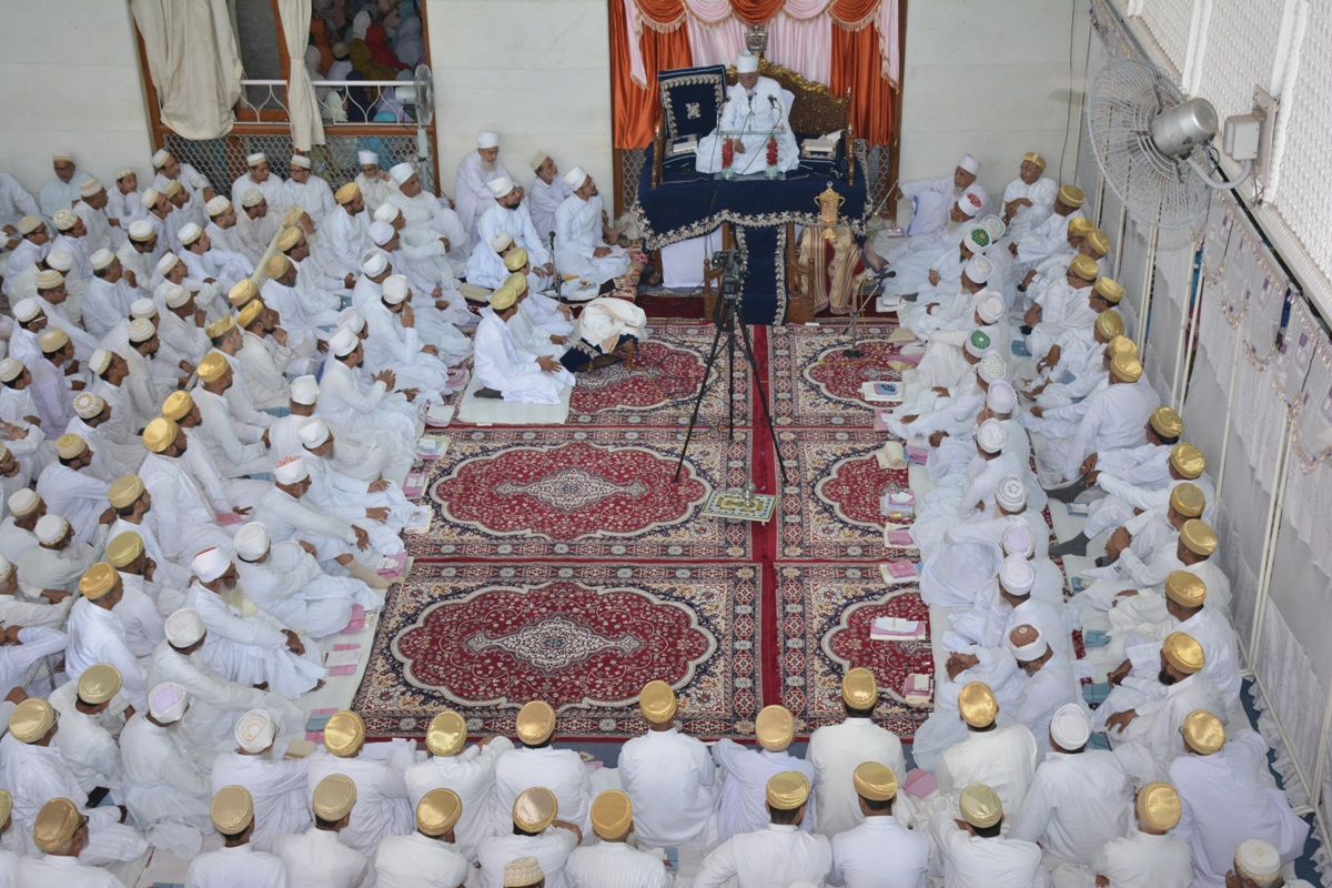 Majlis in Nooraani Masjid during Moharram